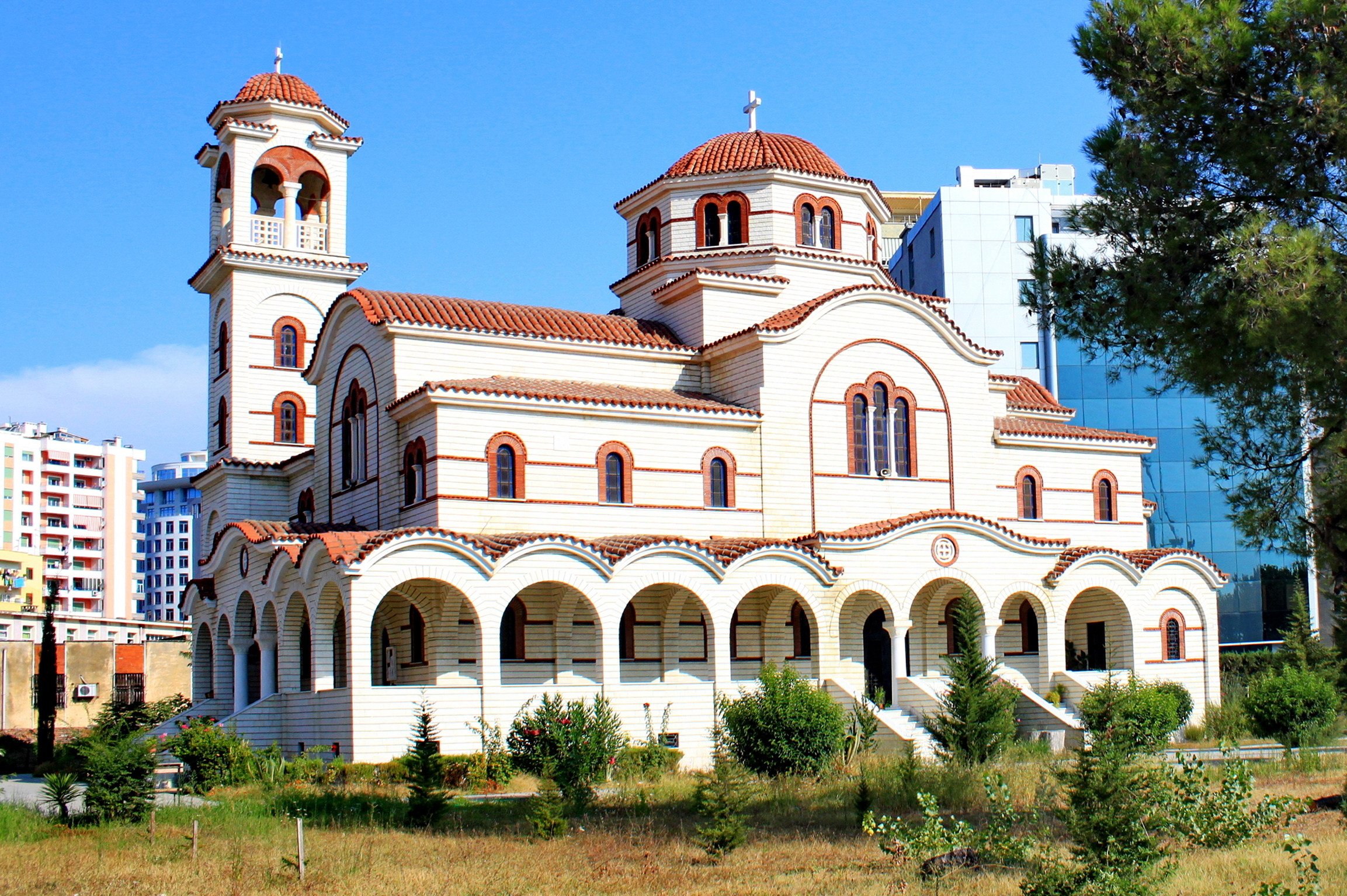 Orthodox Cathedral of Saint Paul and Saint Astius. Durrës, AlbaniaShqip: Katedralja ortodokse e Shën Palit dhe Shën Asti. Durrësi, Shqipëria